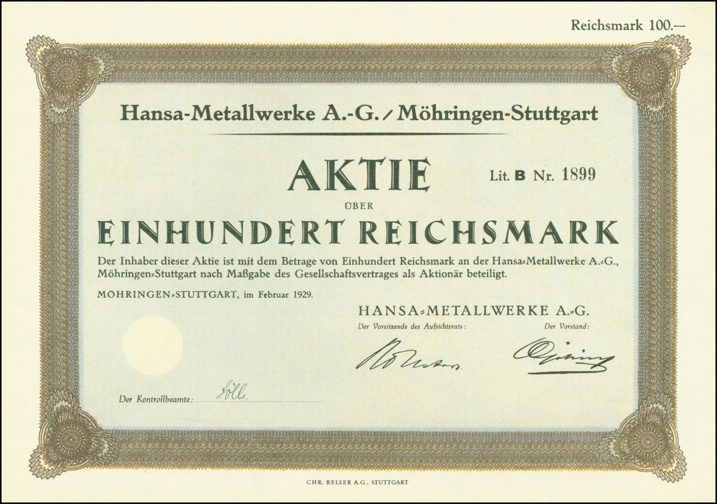 Share of the Hansa-Metallwerke AG, issued February 1929